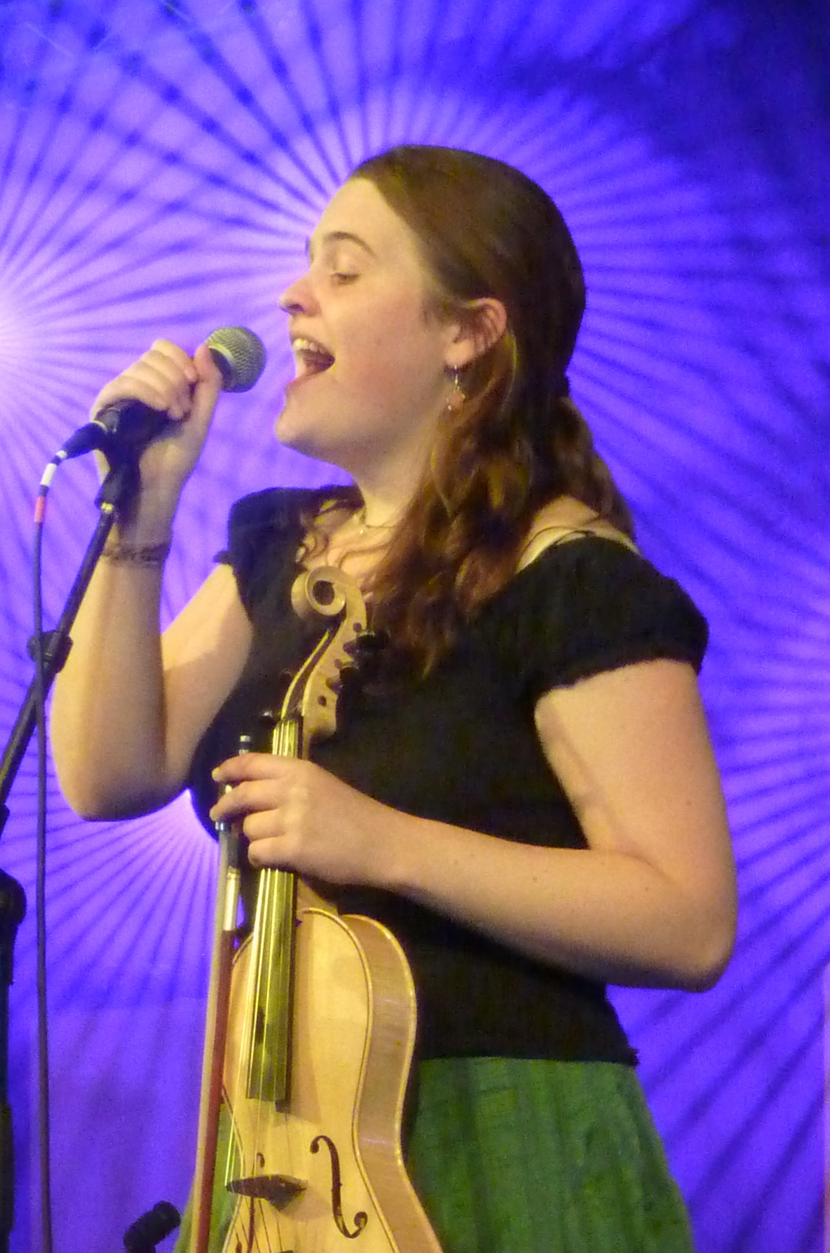 Jackie Oates on stage in 2010 with her Tim Phillips 5 string viola.